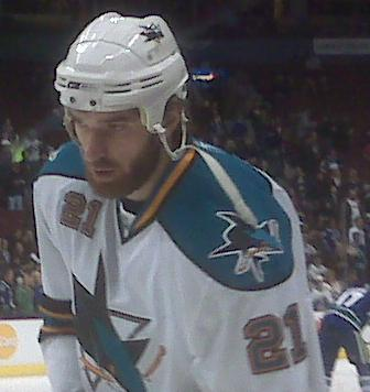 Alexei Semenov of the San Jose Sharks warming up at GM Place before playing the Vancouver Canucks on March 7, 2009.